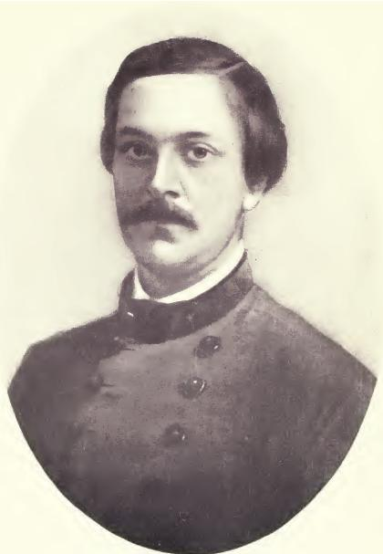 Portrait of Colonel J. Thompson Brown, officer of the Confederate Army